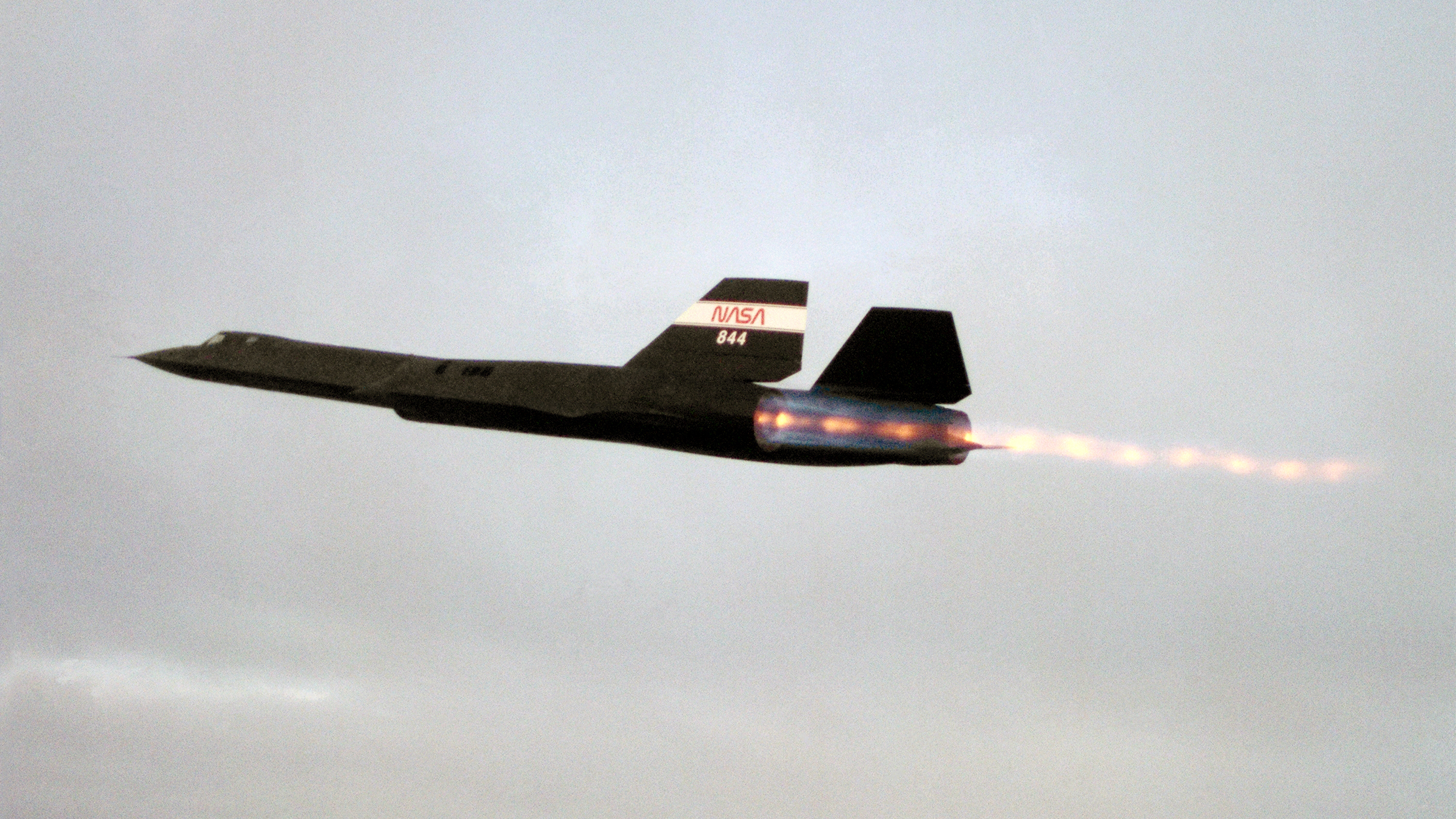 NASA’s SR-71 streaks into the twilight with full afterburner on the first night/science flight from the Dryden Flight Research Facility. Onboard were research pilot Steve Ishmael and flight engineer Marta Bohn-Meyer.Mounted in the nose of the SR-71 was an ultraviolet video camera aimed skyward to capture images of stars, asteroids and comets. This flight checked the operation of the camera to insure the air turbulence at Mach speeds and the vibration of the aircraft did not interfere with the operation of the camera. The science portion of the flight is a project of the Jet Propulsion Laboratory, Pasadena, California.